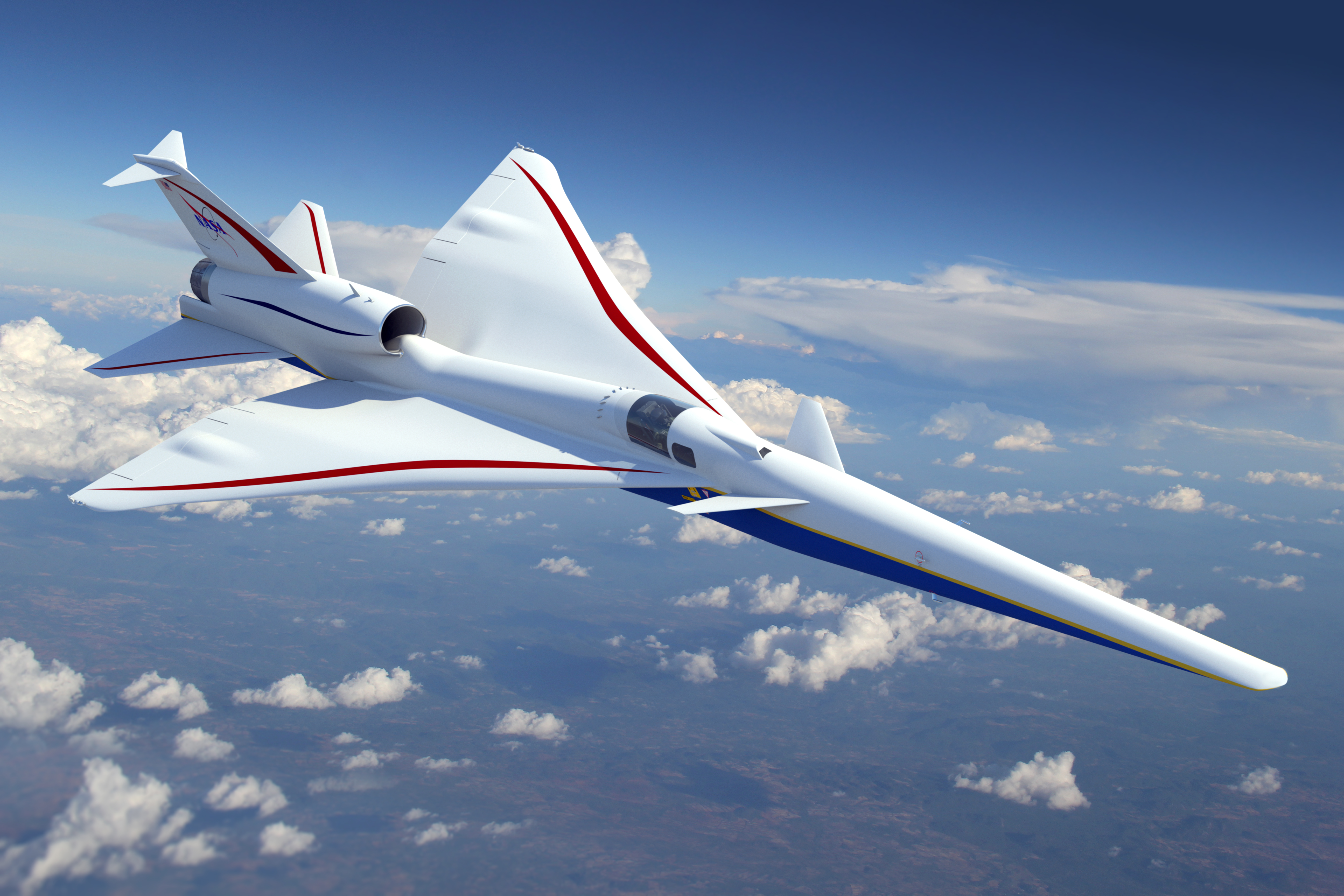 Nasa Quiet Supersonic Technology Low-Boom Flight Demonstrator